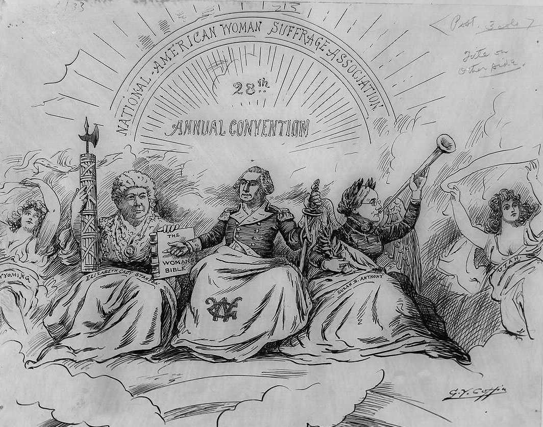 A cartoon drawing "The apotheosis of suffrage." Caption: "From the famous fresco by Brumidi in the Rotunda of the Capital."